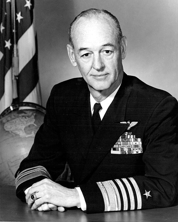 Admiral John Thach